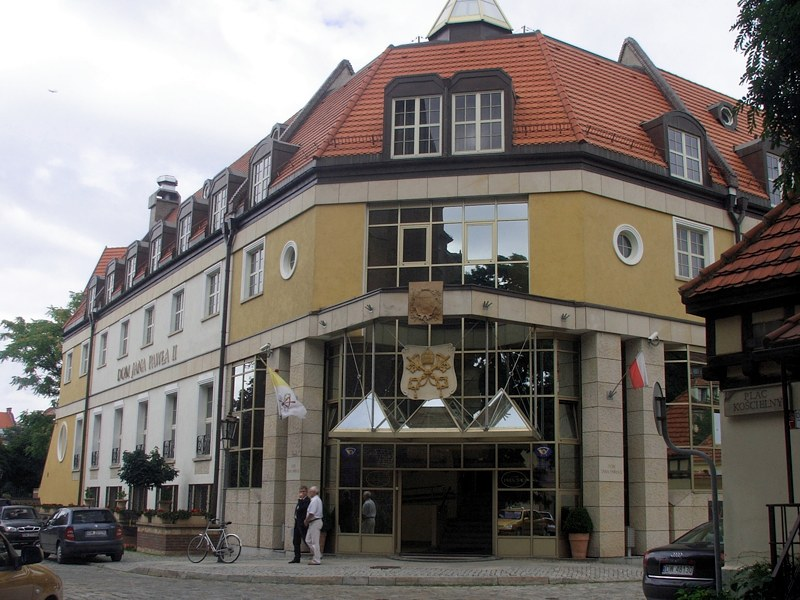 Enter to Home Johns Paul II in Wrocław.